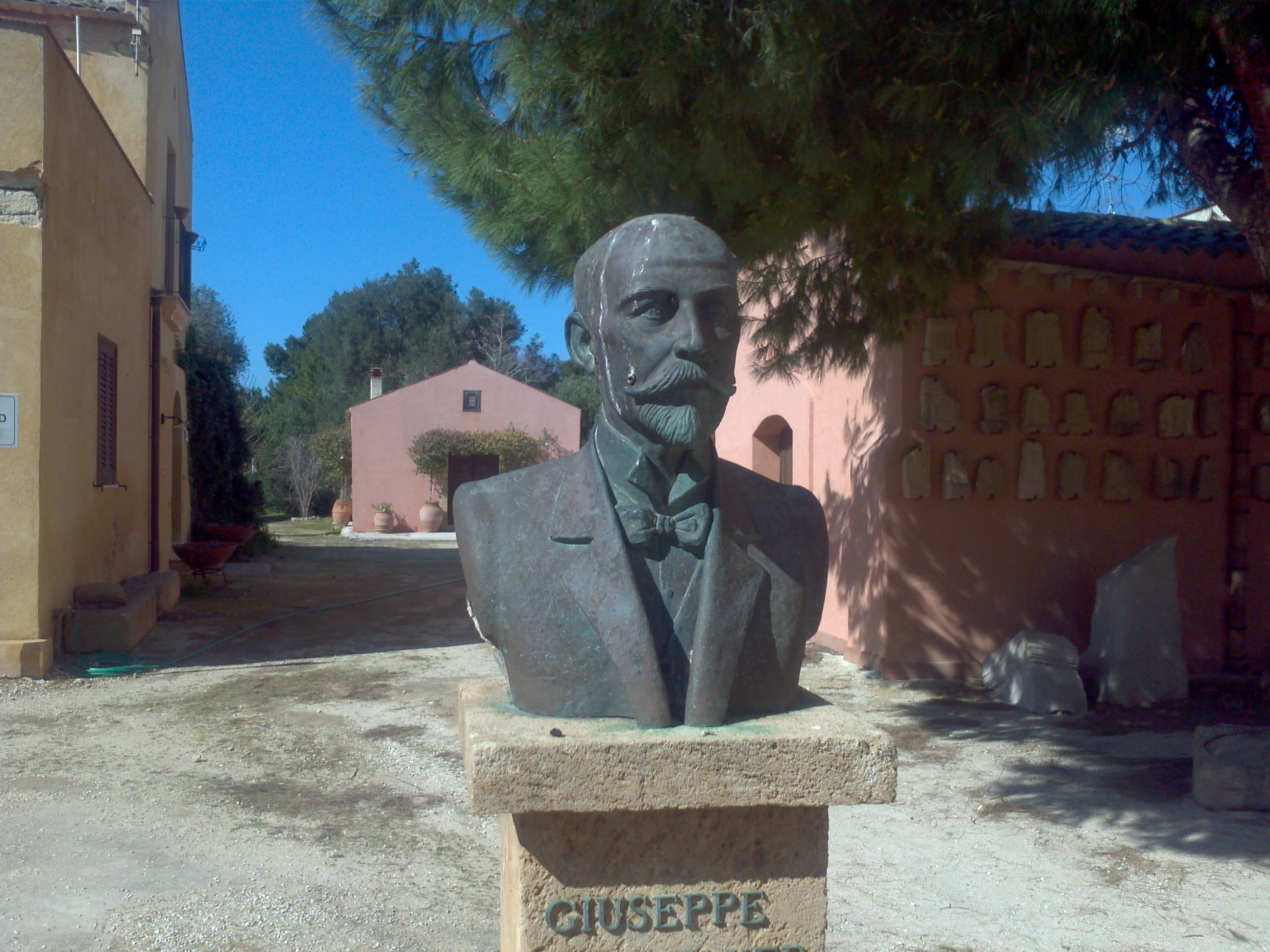 Joseph Whitaker at the museum on the island of Mozia